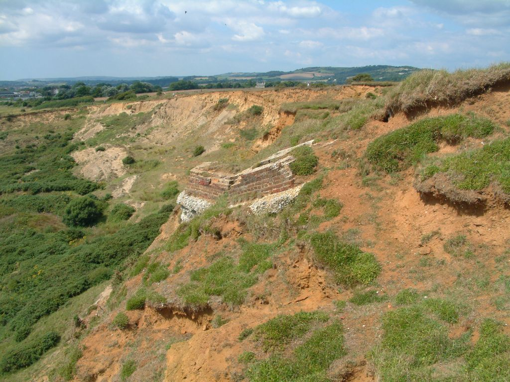 All that remains of Redcliff Battery, Isle of Wight : a few blocks of concrete and some bricks.